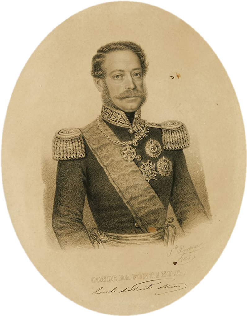 The Count of Fonte Nova, in a 1855 engraving signed "Santa Bárbara".